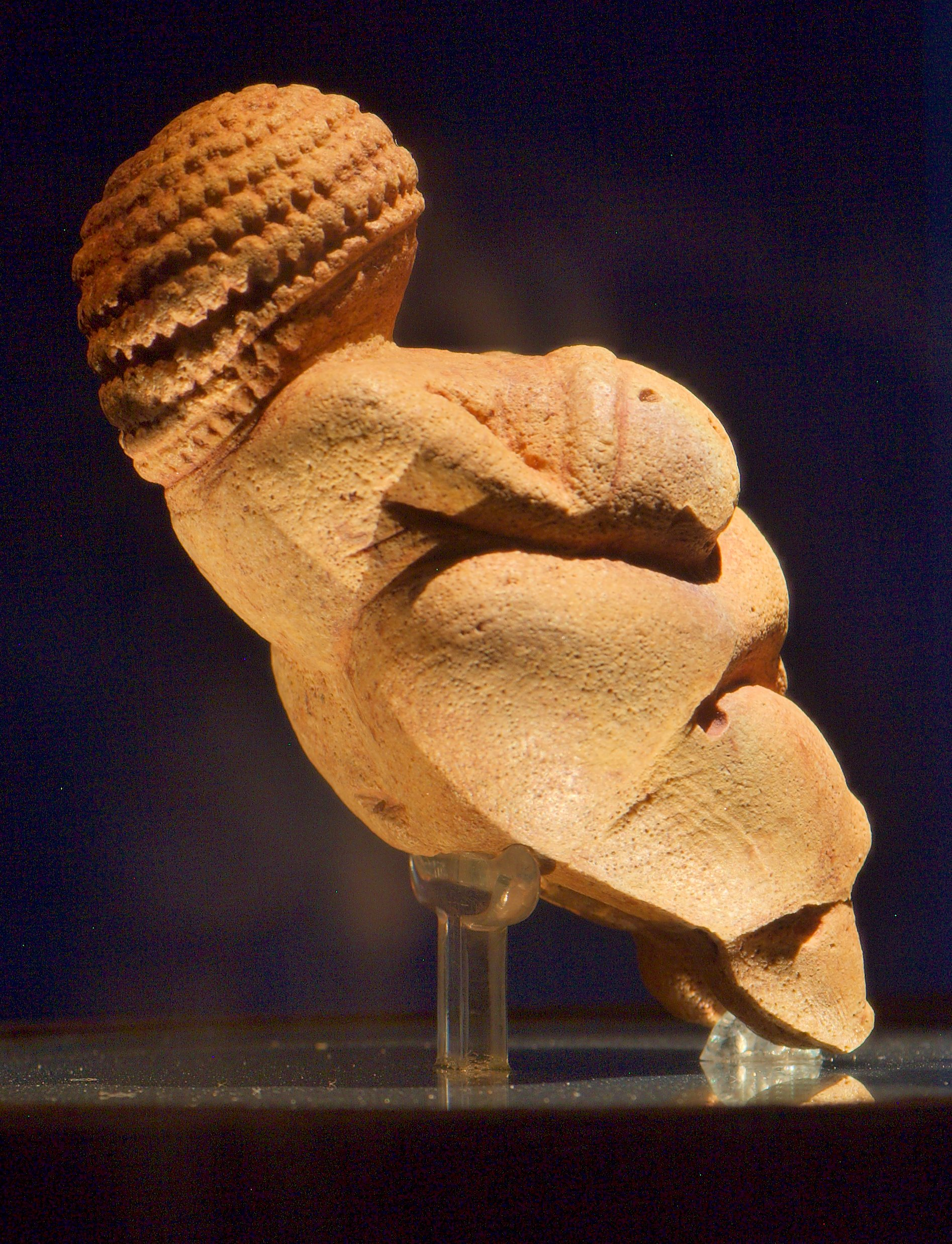 Venus of Willendorf